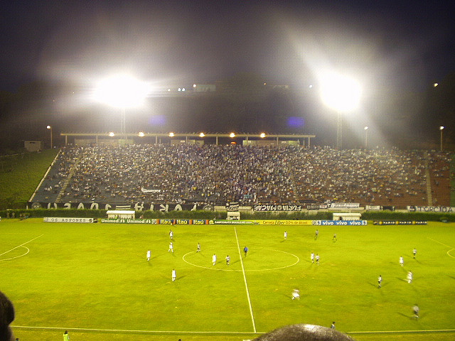 Botafogo x Vitória in Juiz de Fora, Minas Gerais, Brazil.